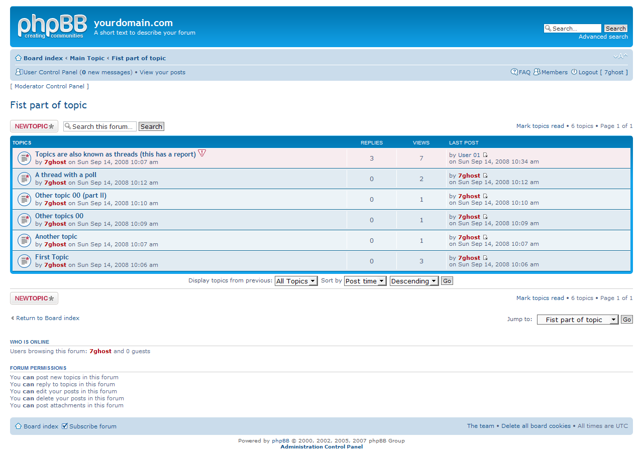 Example forum view, from PhpBB.